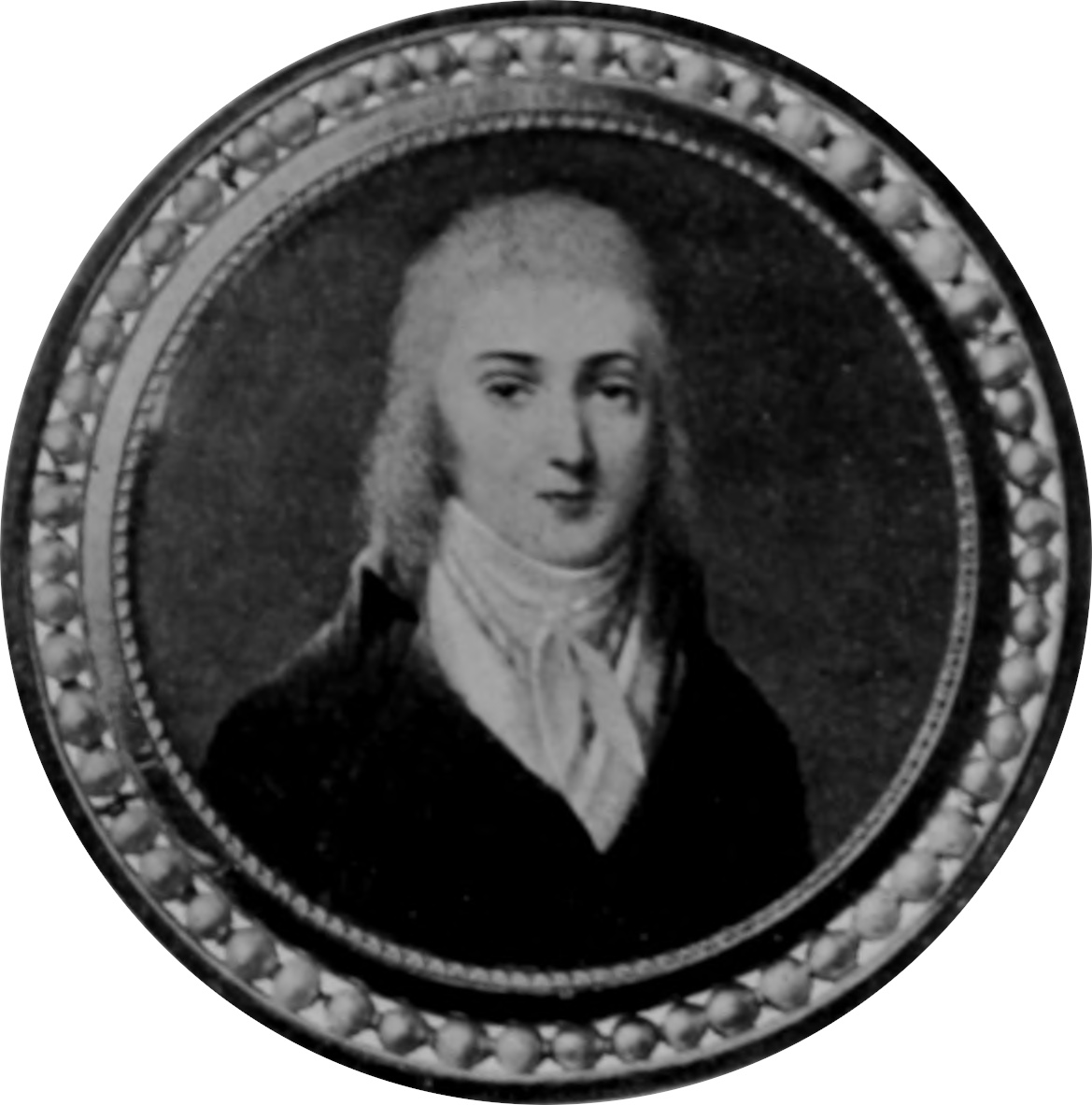 "Richard Worsam Meade, of Philadelphia. Miniature by Jean Baptiste Isabey, owned by Emily King Paterson of Perth Amboy, New Jersey. Hair powdered, brown eyes, delicate coloring, blue coat, and white stock. This miniature is set in whole pearls, with a design in hair and pearls on the back." Wharton, p. xix.